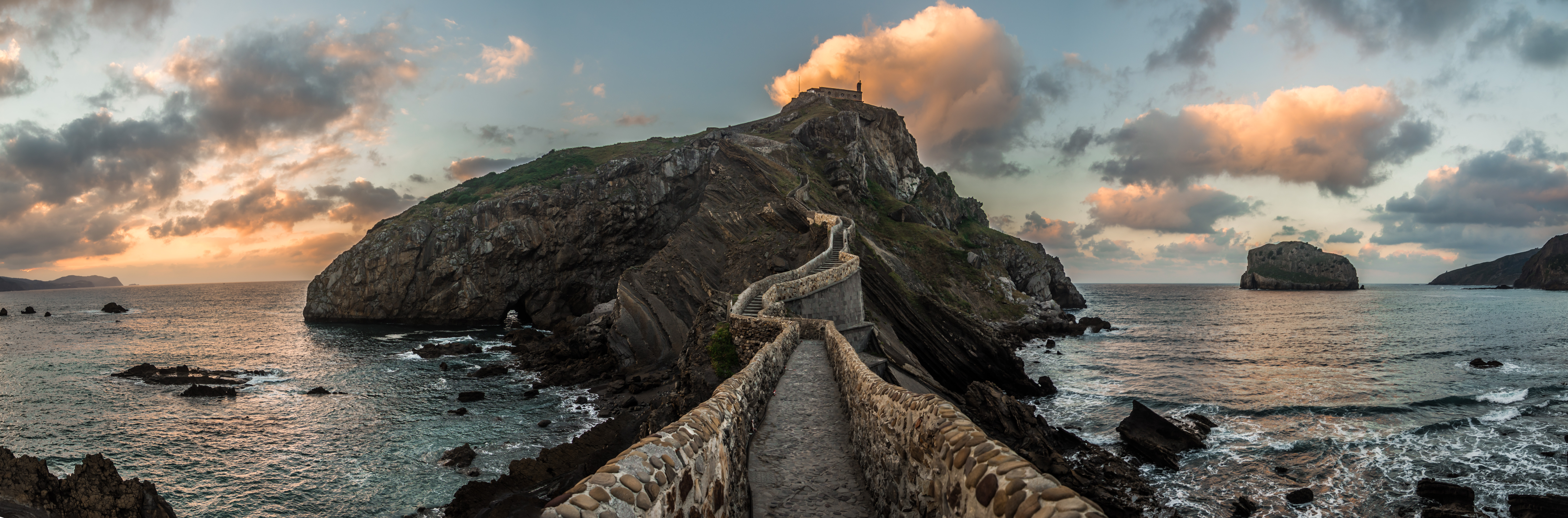 San Juan de Gaztelugatxe. Hermitage located in an island, connected to the continent through a path of 241 steps. This is a photography of a Special Area of Conservation in Spain with the ID: ES2130005. Natura2000 entry, EEA entry